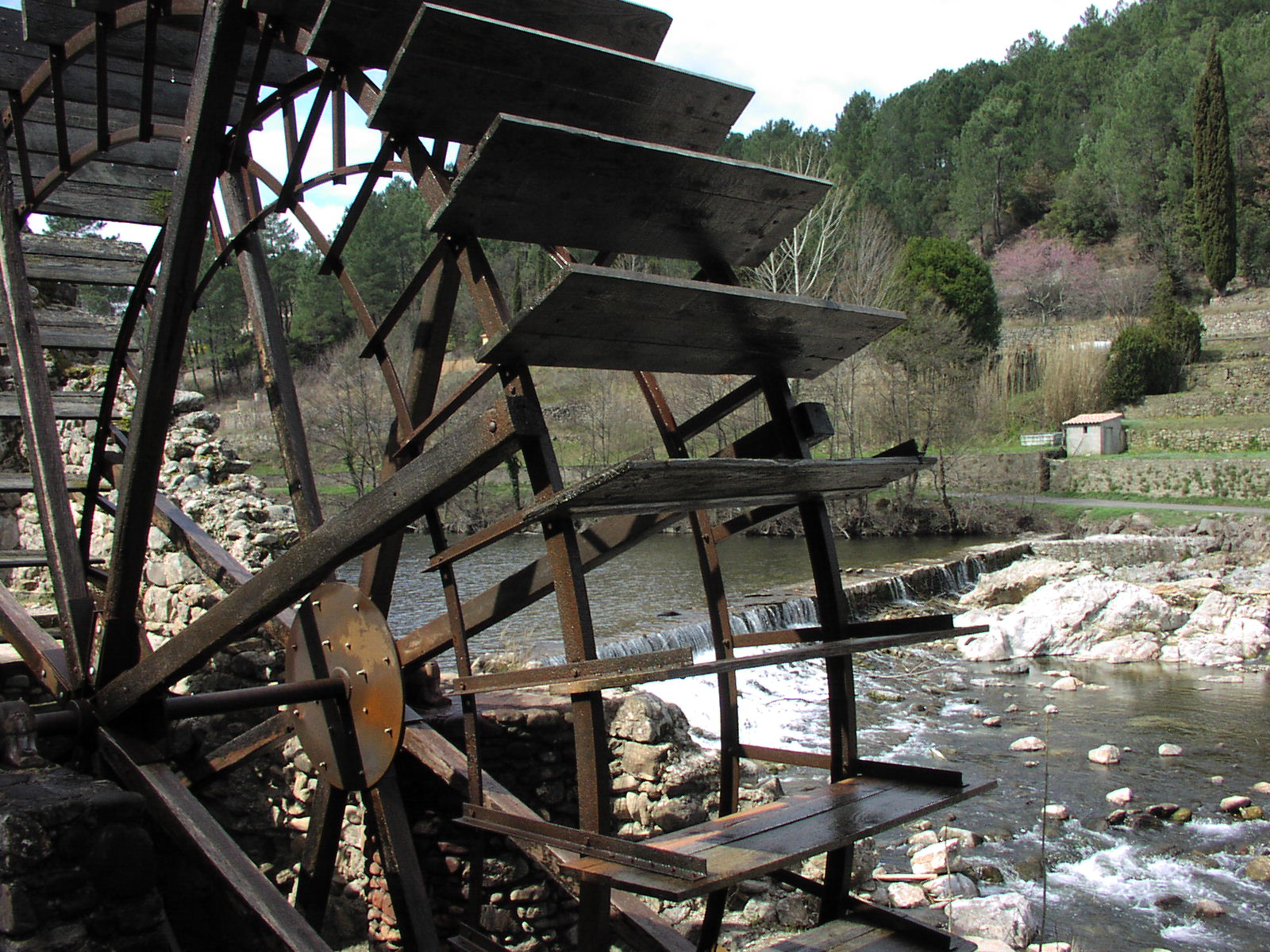 view of the river gardon by the the wheel of the mill at Corbes, Gard , France